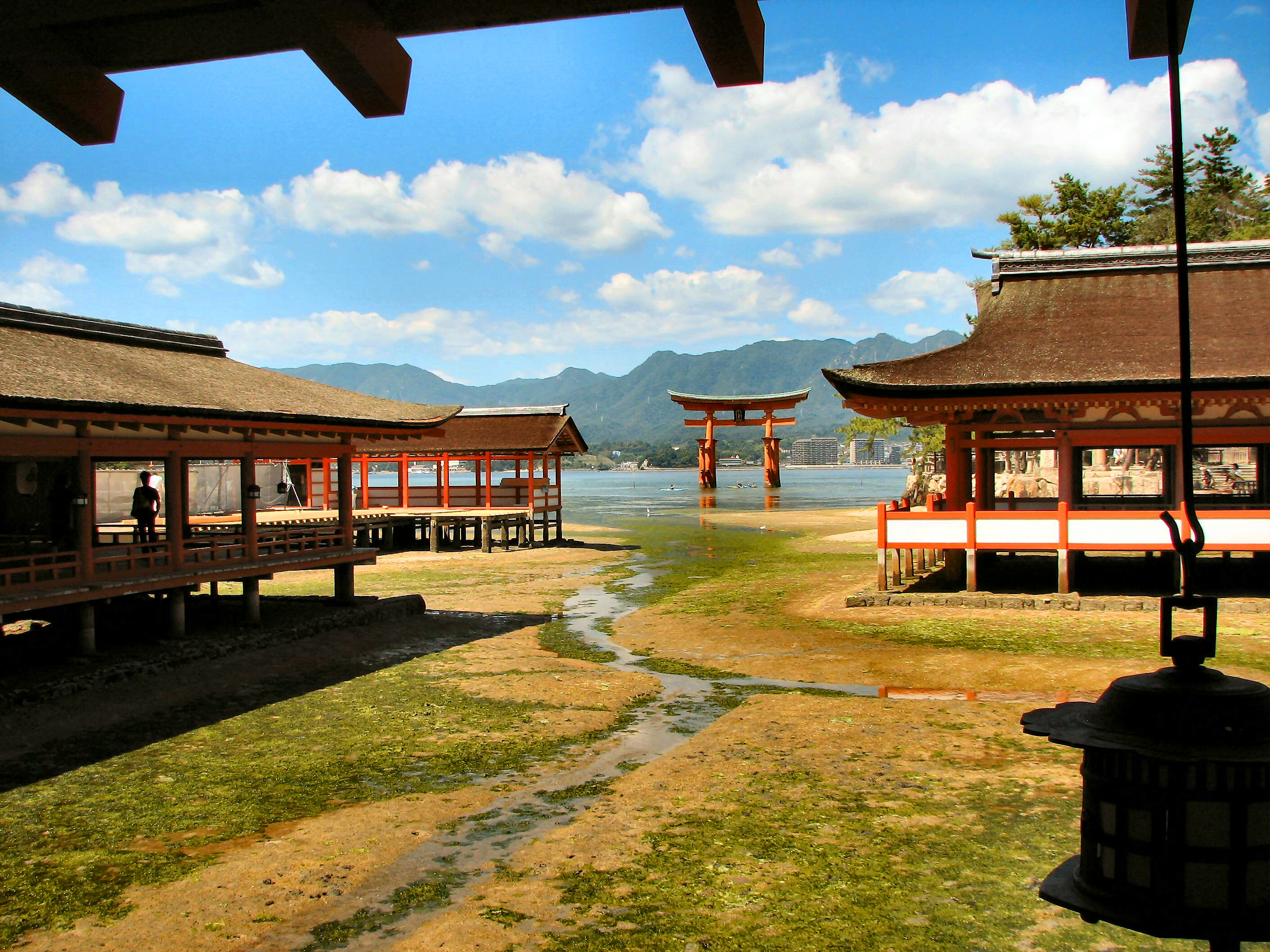 Itsukushima shrine (Miyajima) with know gate in rear.